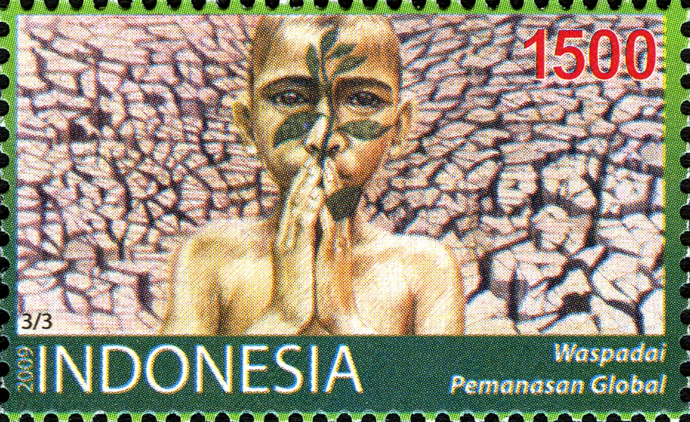 Stamps of Indonesia